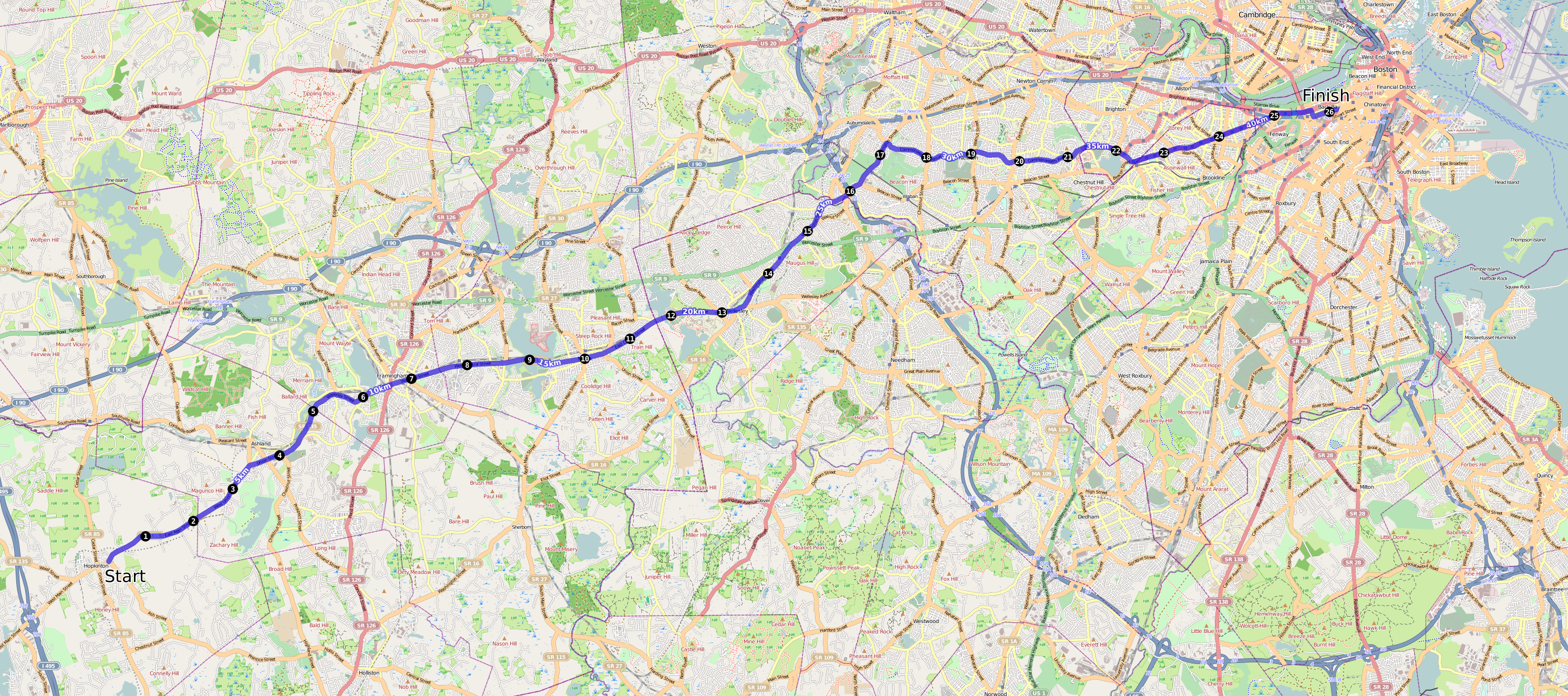 Route of the Boston Marathon. Miles are circled.